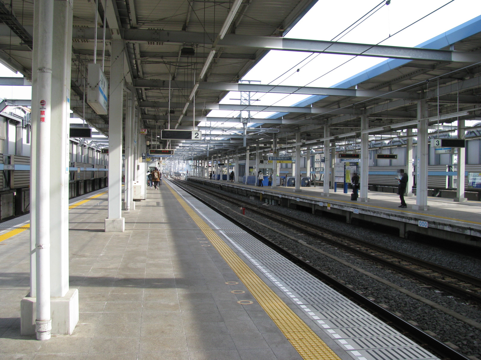 Myoden Station on Tokyo Metro Tozai-Line